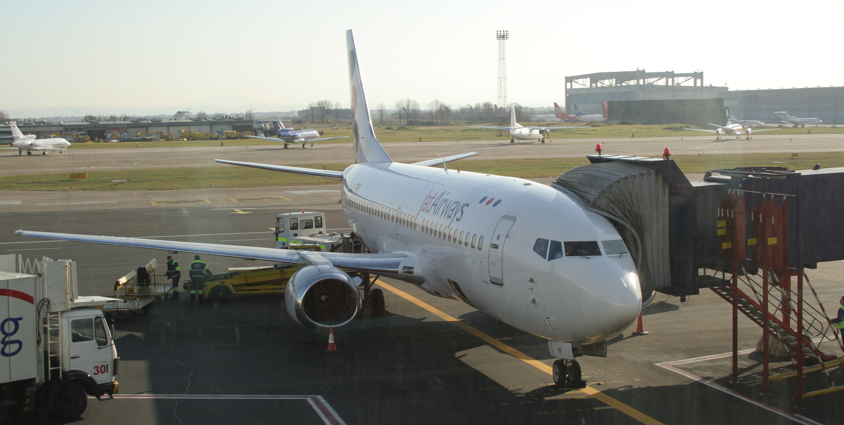 YU-ANF about to depart as JU 350 from Belgrade to Frankfurt